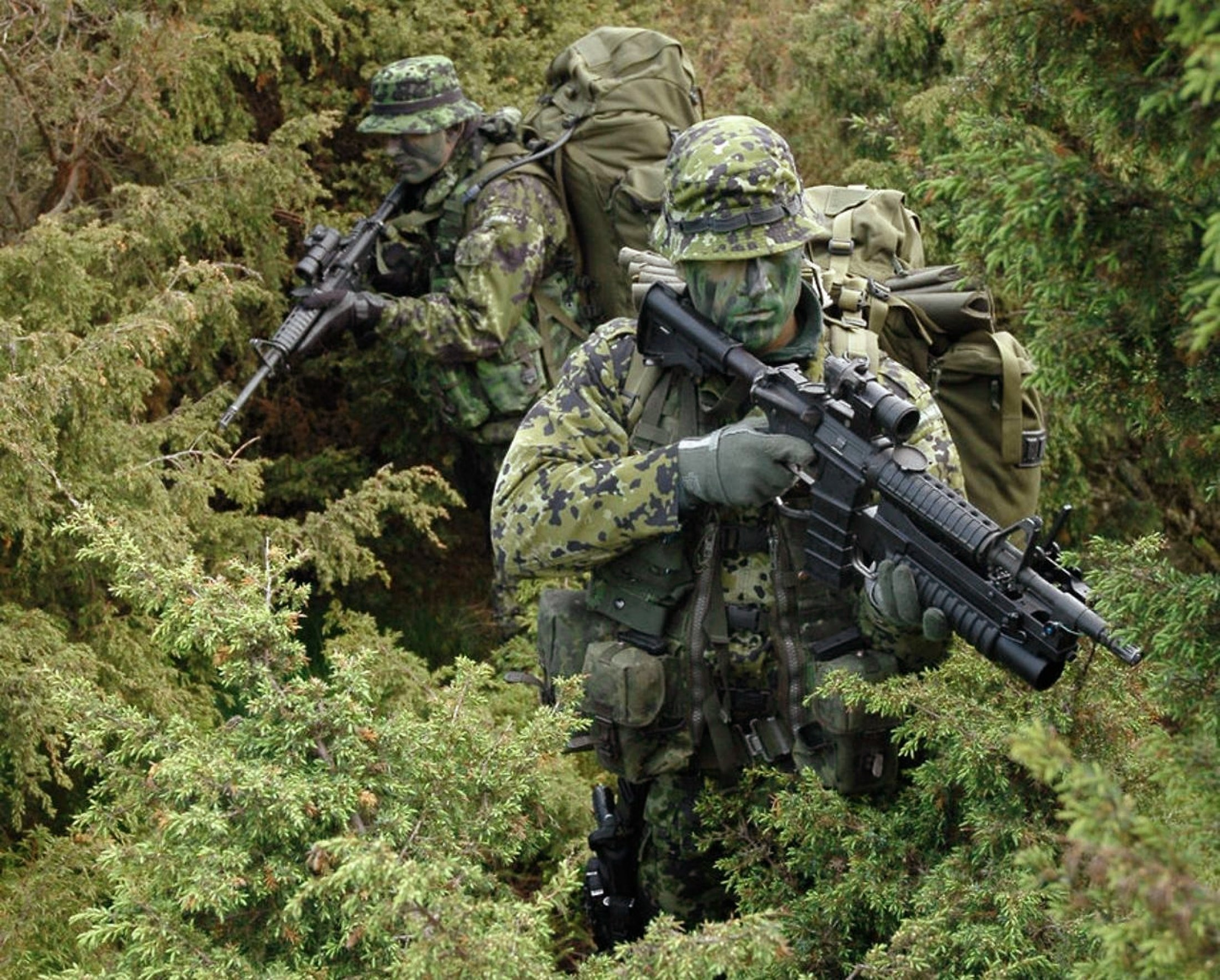 Soldiers from the Danish Special Support and Reconnaissance Company (SSR)